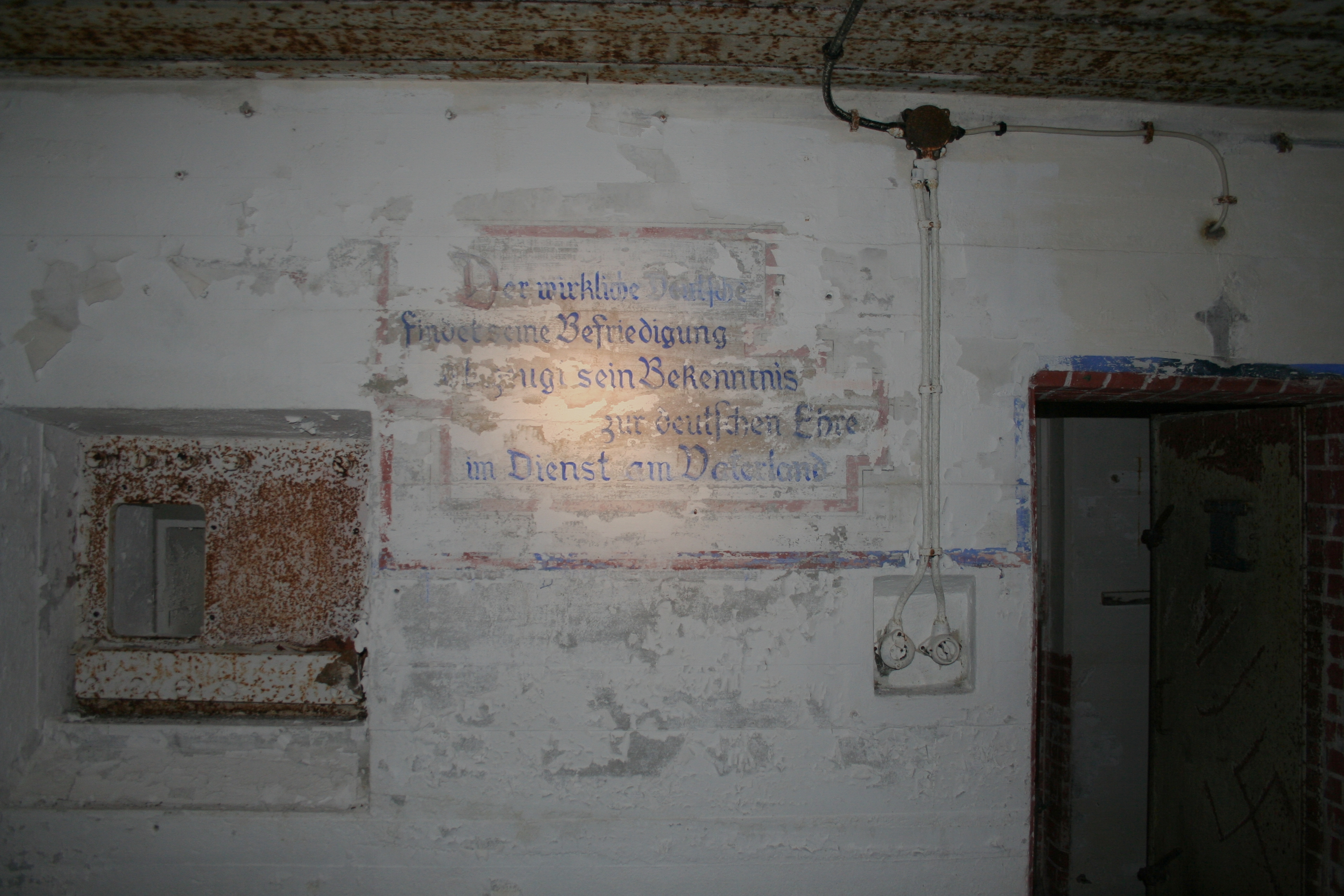 Something like: "The real German finds his satisfaction and his creed through German honour and in service for his fatherland".